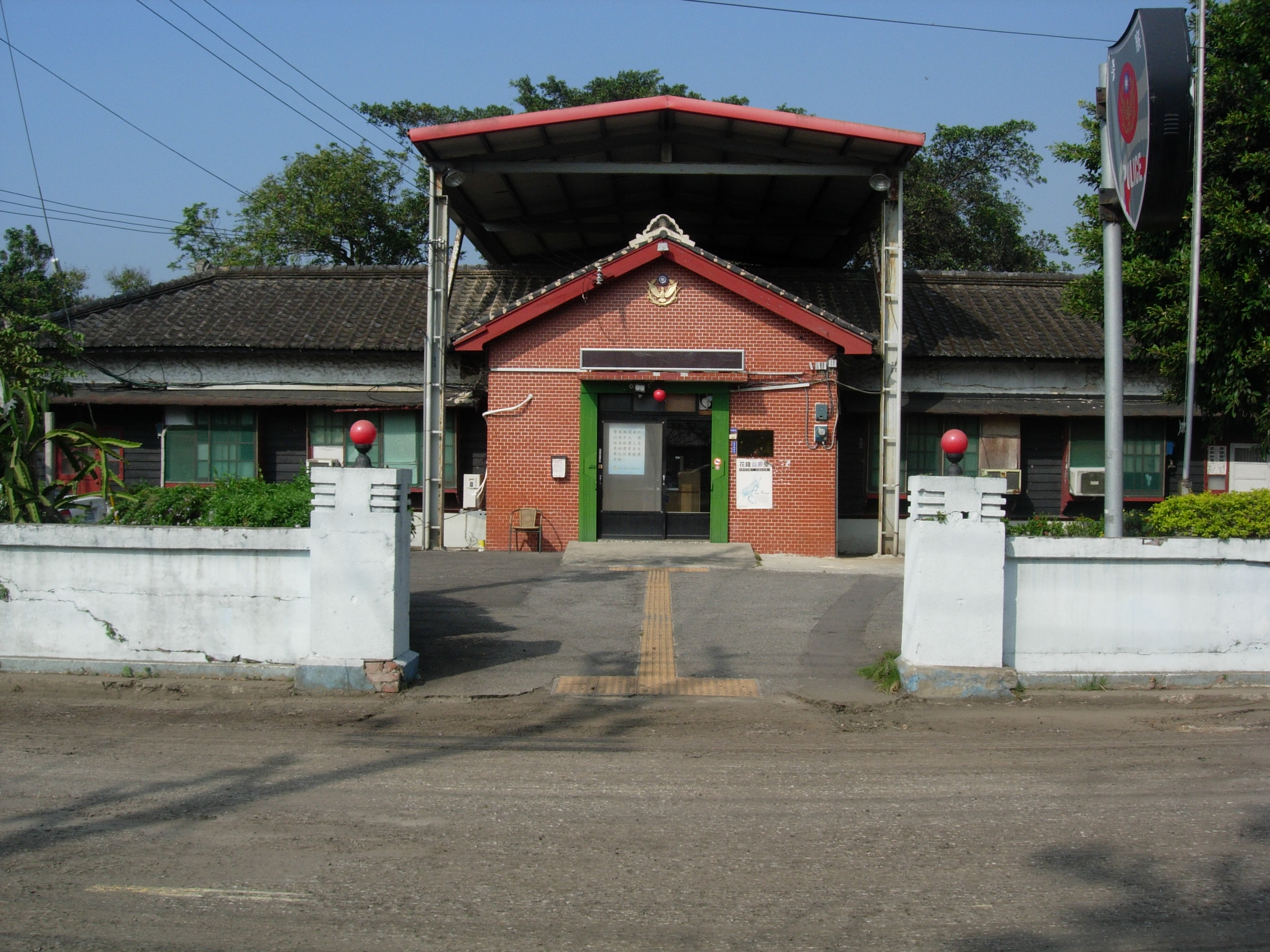 Hsinchu Jhaomen Police Station